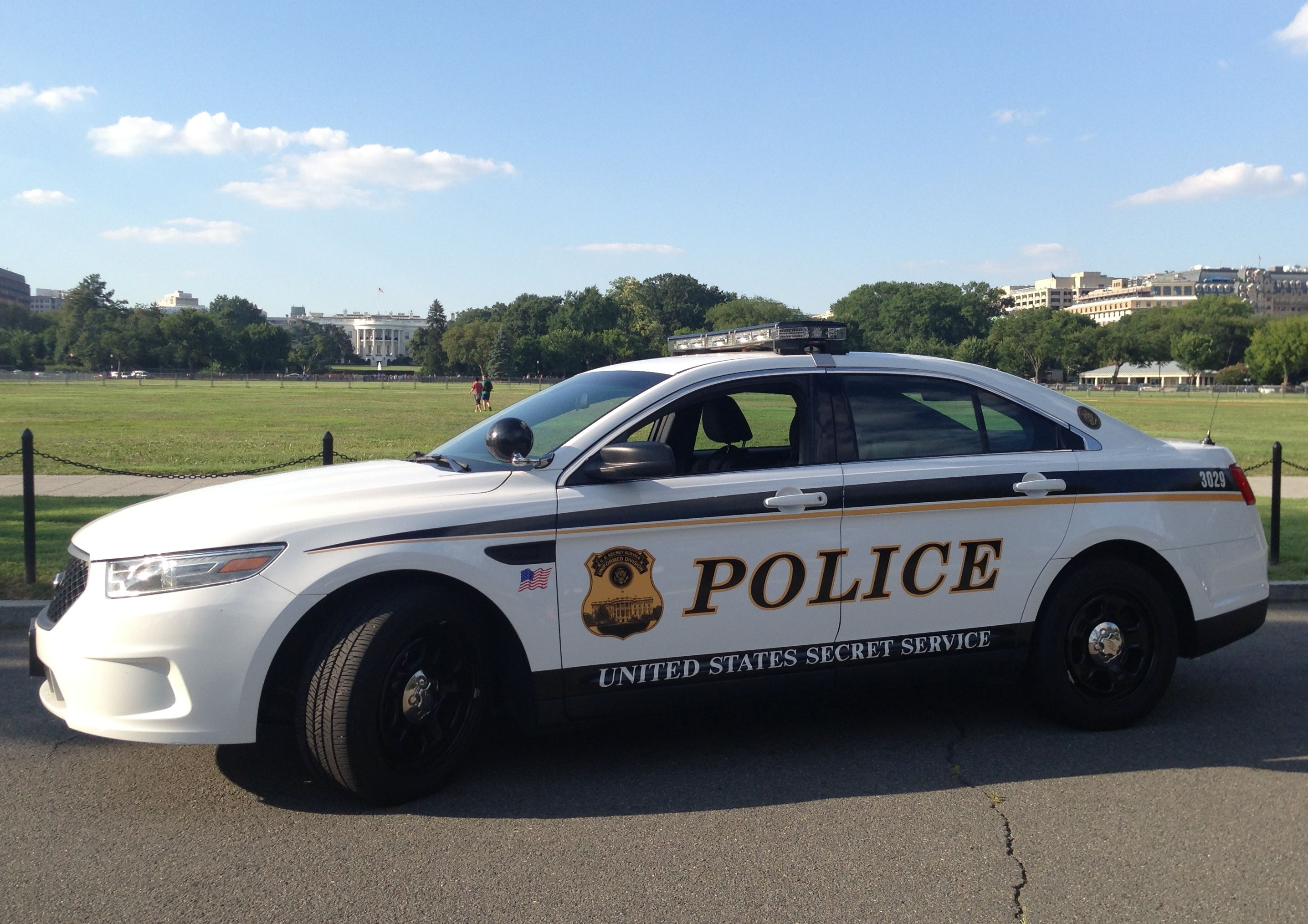 A 2013 Ford Police Interceptor of the US Secret Service Uniformed Division is pictured outside the White House in Washington, DC, in July of 2013.